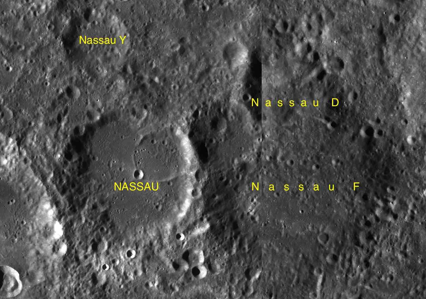 Part of the chart LAC-104 used for the presentation